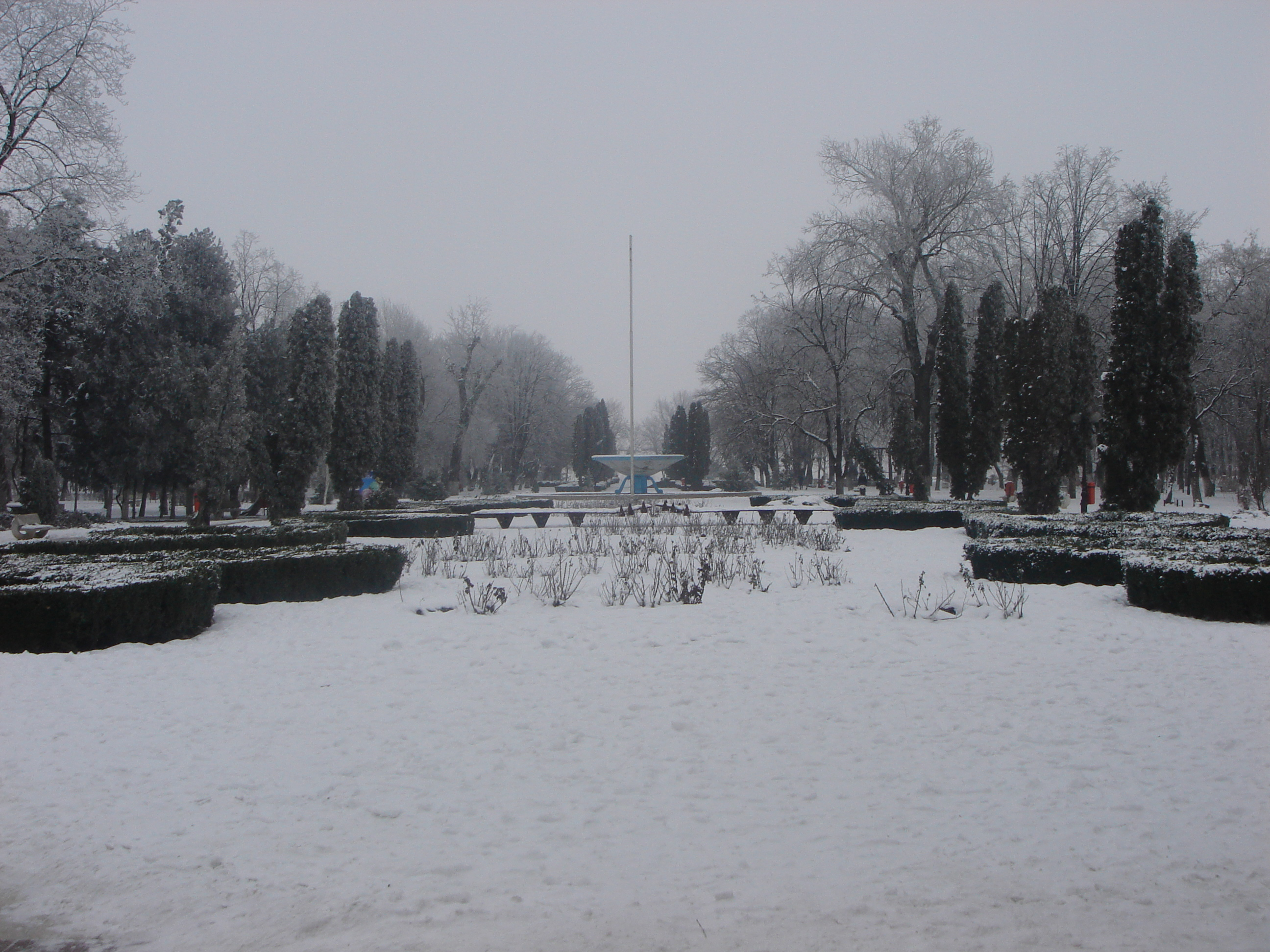 gradina publica galati